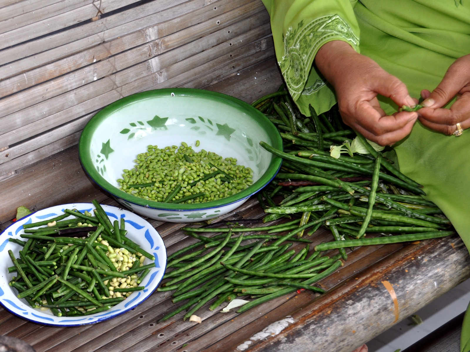 Cowpea Vigna unguiculata cultigroup Unguiculata, from Lumajang, East Java, Indonesia. Young pods prepared to cook.